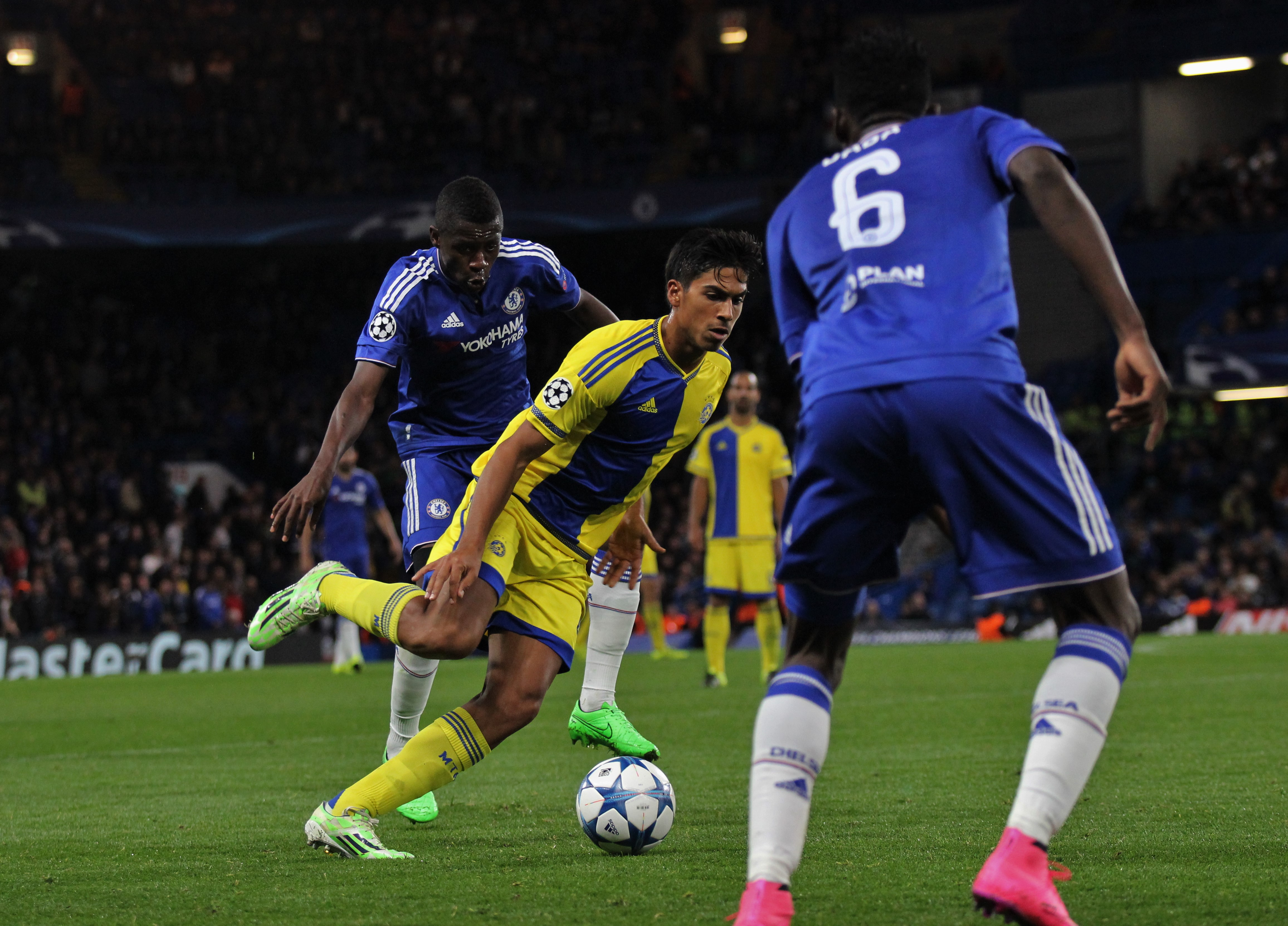 Dor Peretz of Maccabi Tel-Aviv on the ball during the Champions League game against Chelsea.